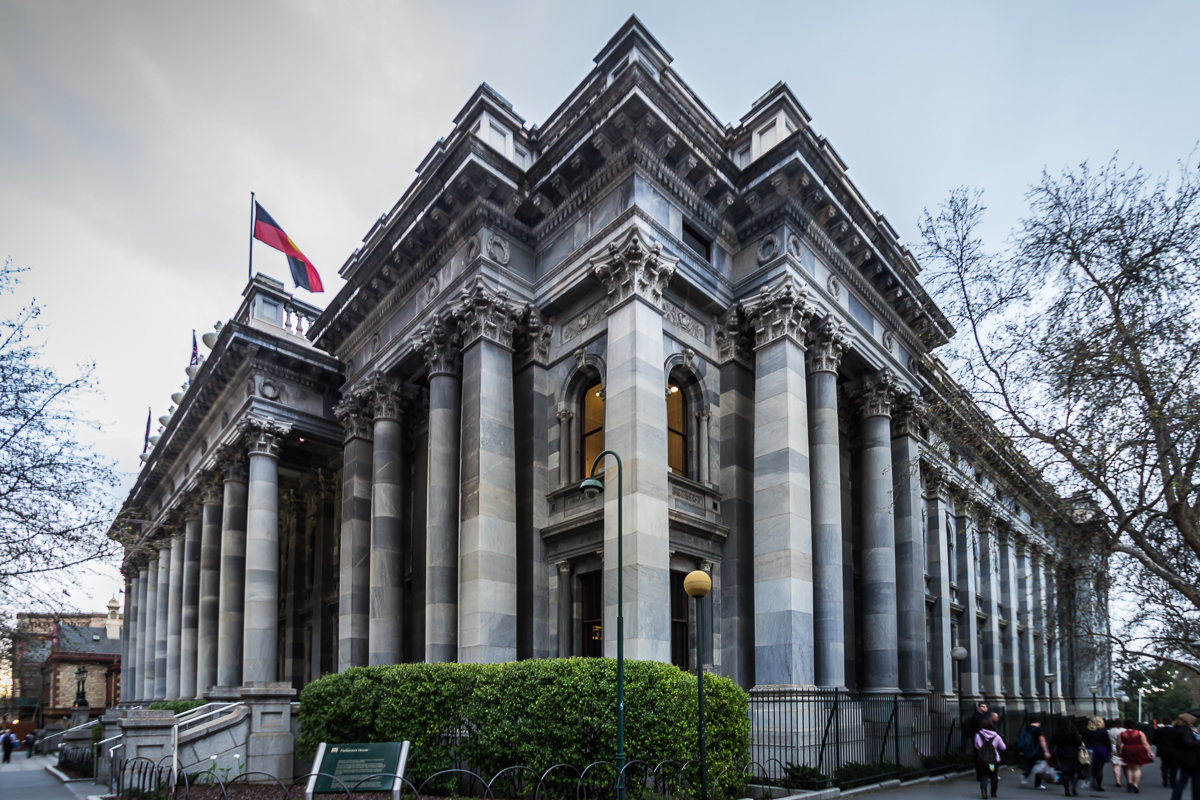 Parliament House, Adelaide (South Australia) on the corner of North Terrace and King William Road